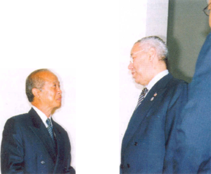 Norodom Ranariddh meets Colin Powell in Phnom Penh